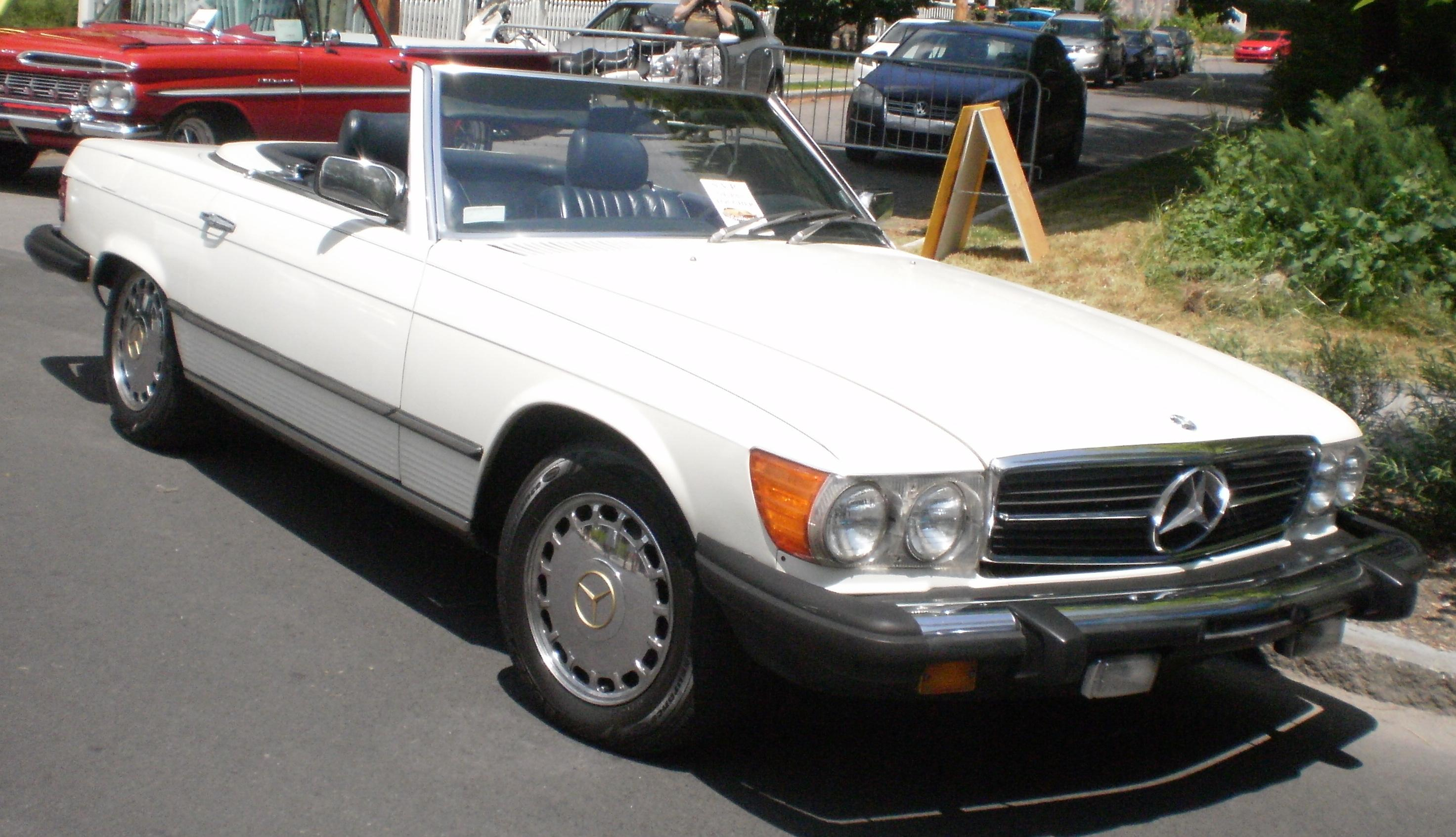 Mercedes-Benz SL-Class photographed in Ste. Anne De Bellevue, Quebec, Canada at Crusin' At The Boardwalk 2011.